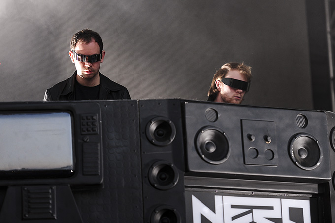 Parklife Festival 2012